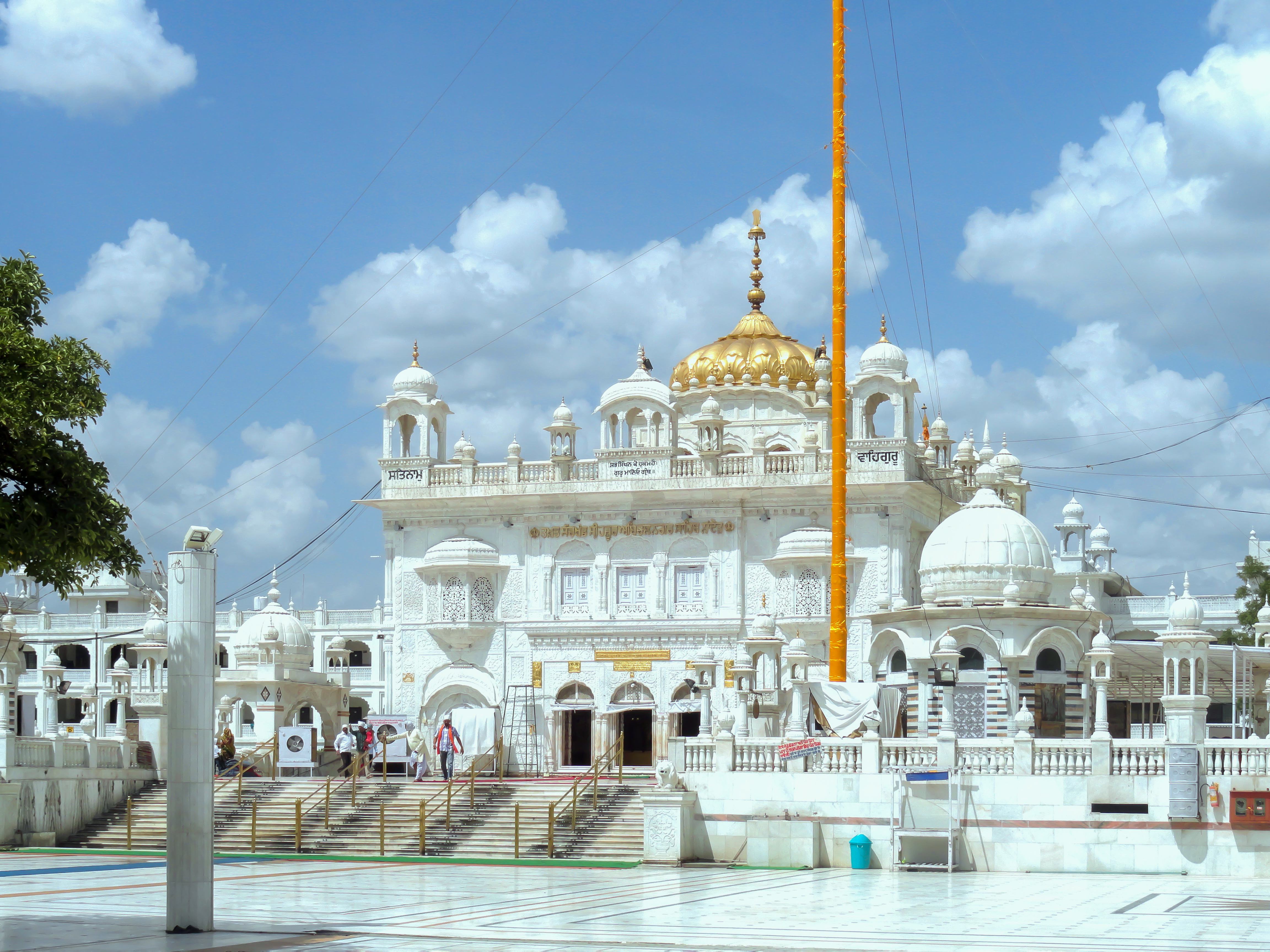 gurduara sahib at hazoor sahib